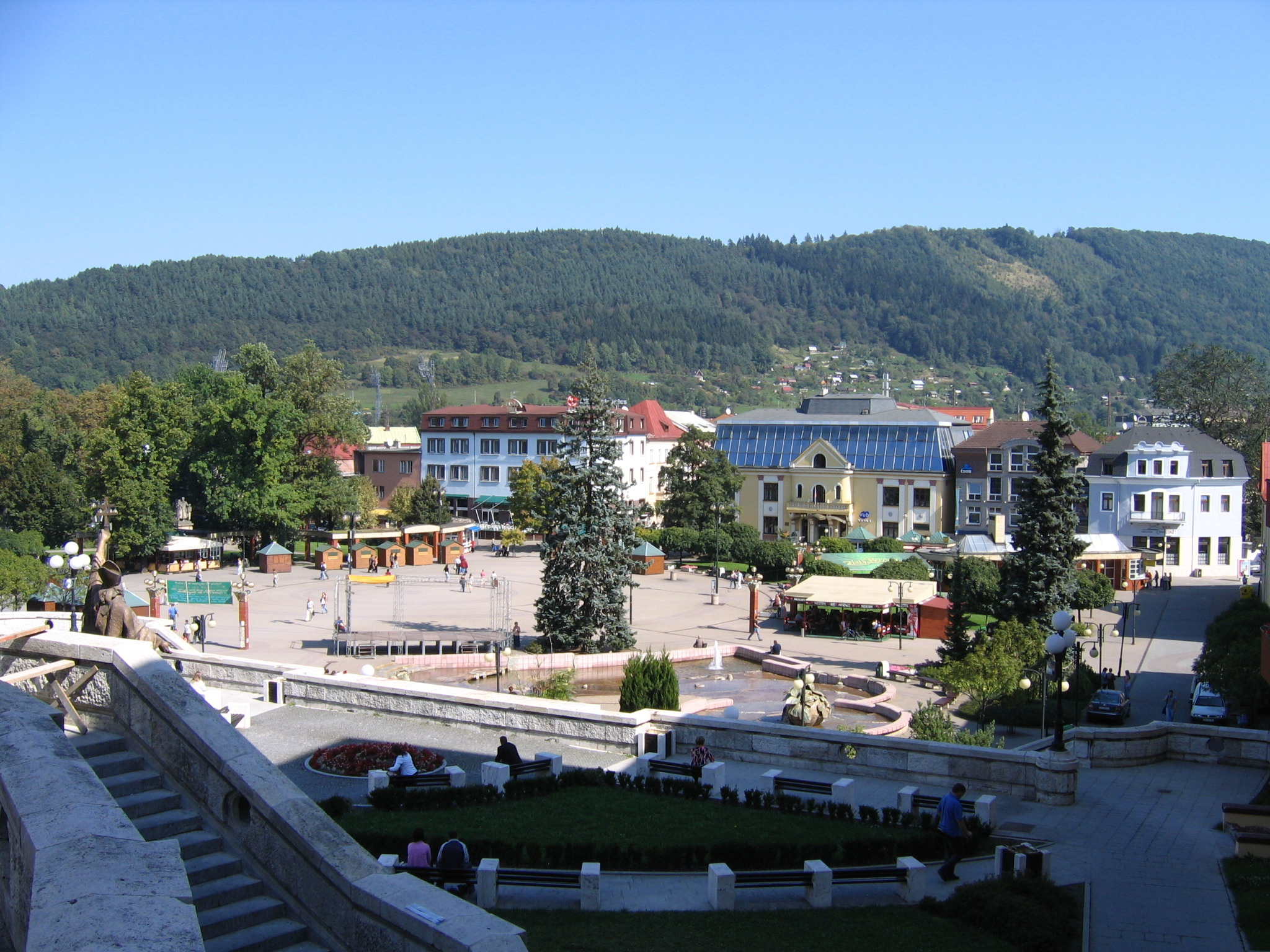 Andrej Hlinka Square